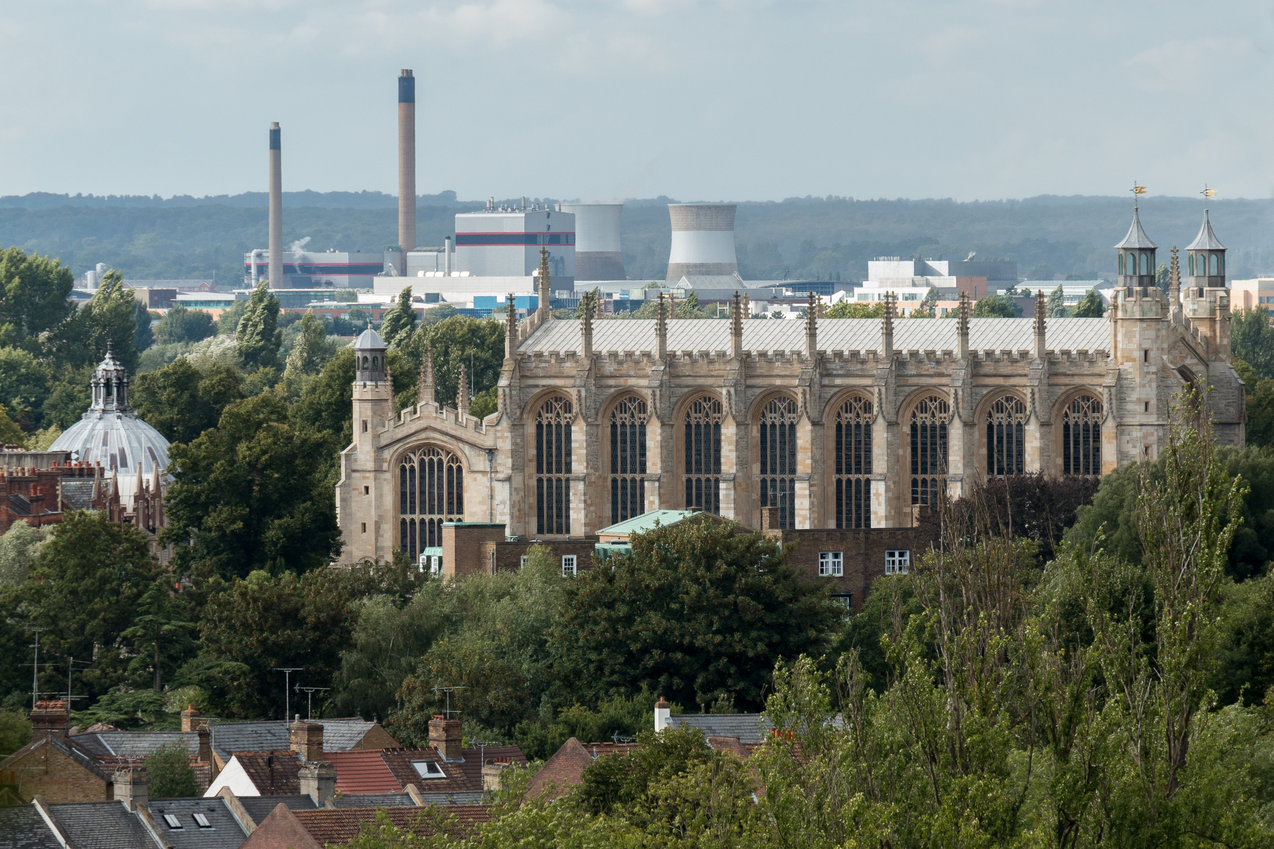 Eton College Chapel from Windsor Castle; In the background Slough Power Station in the Slough Trading Estate